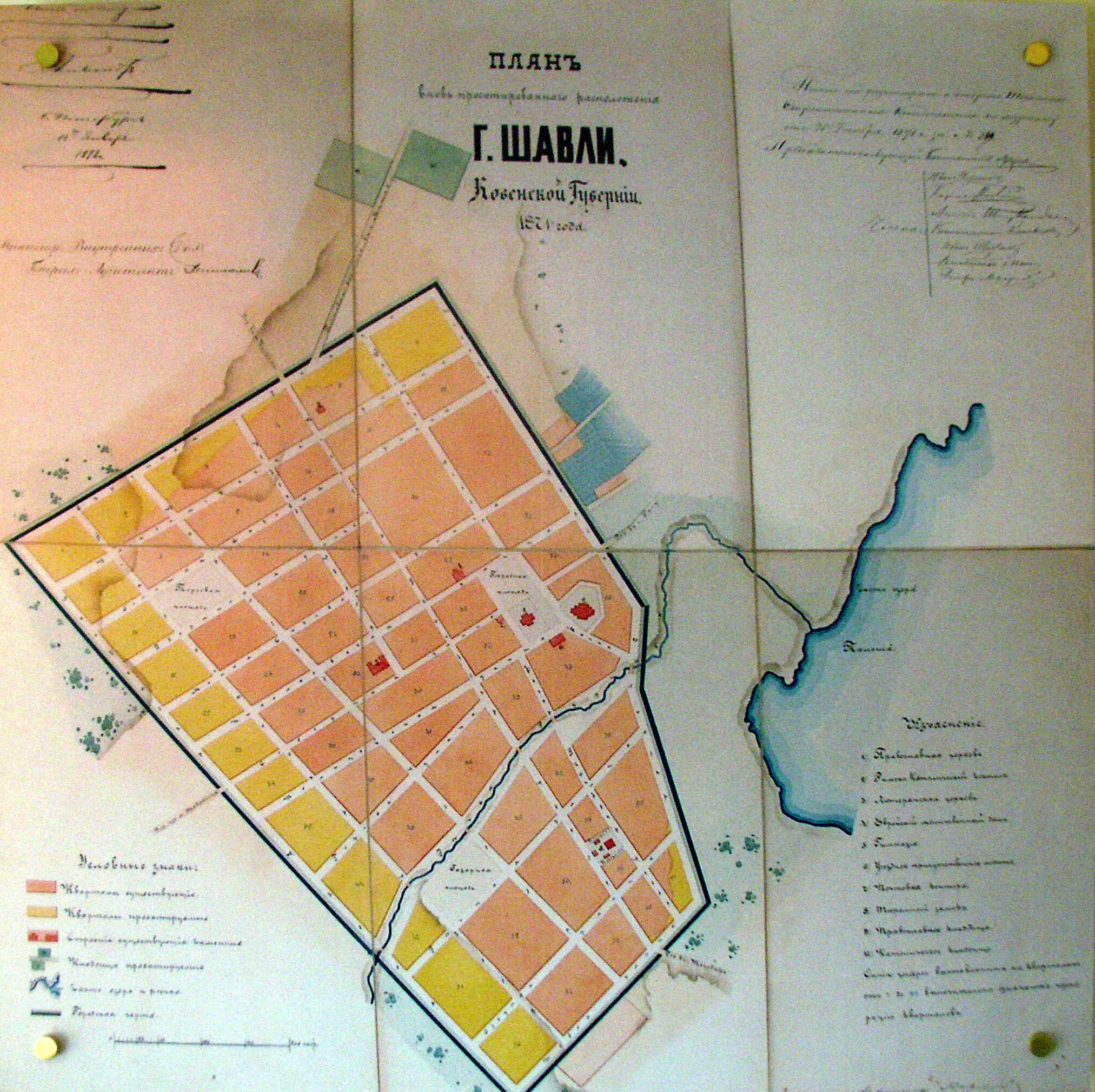 Plan of Šiauliai in 1874. Museum Aušra